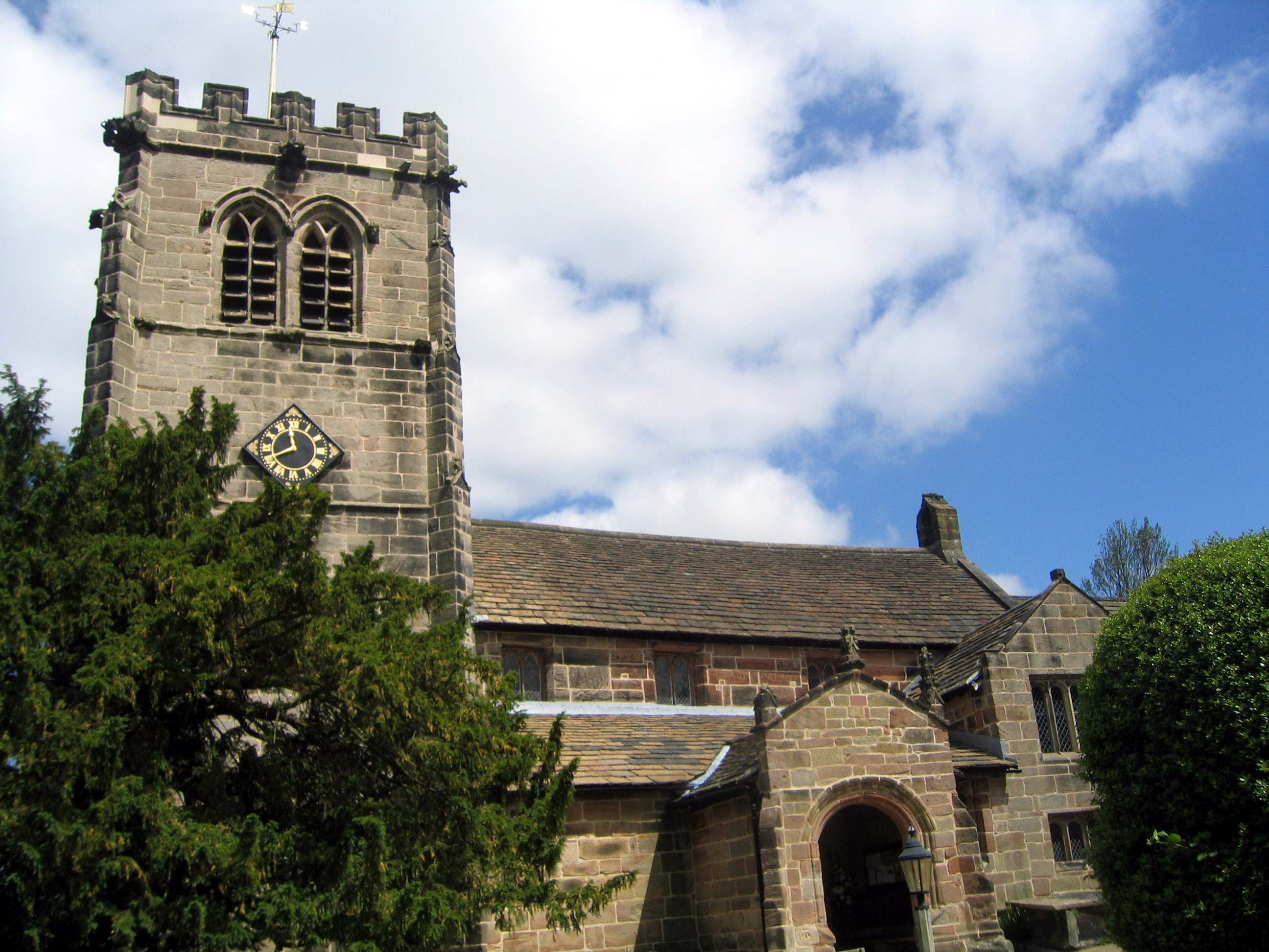 Photograph